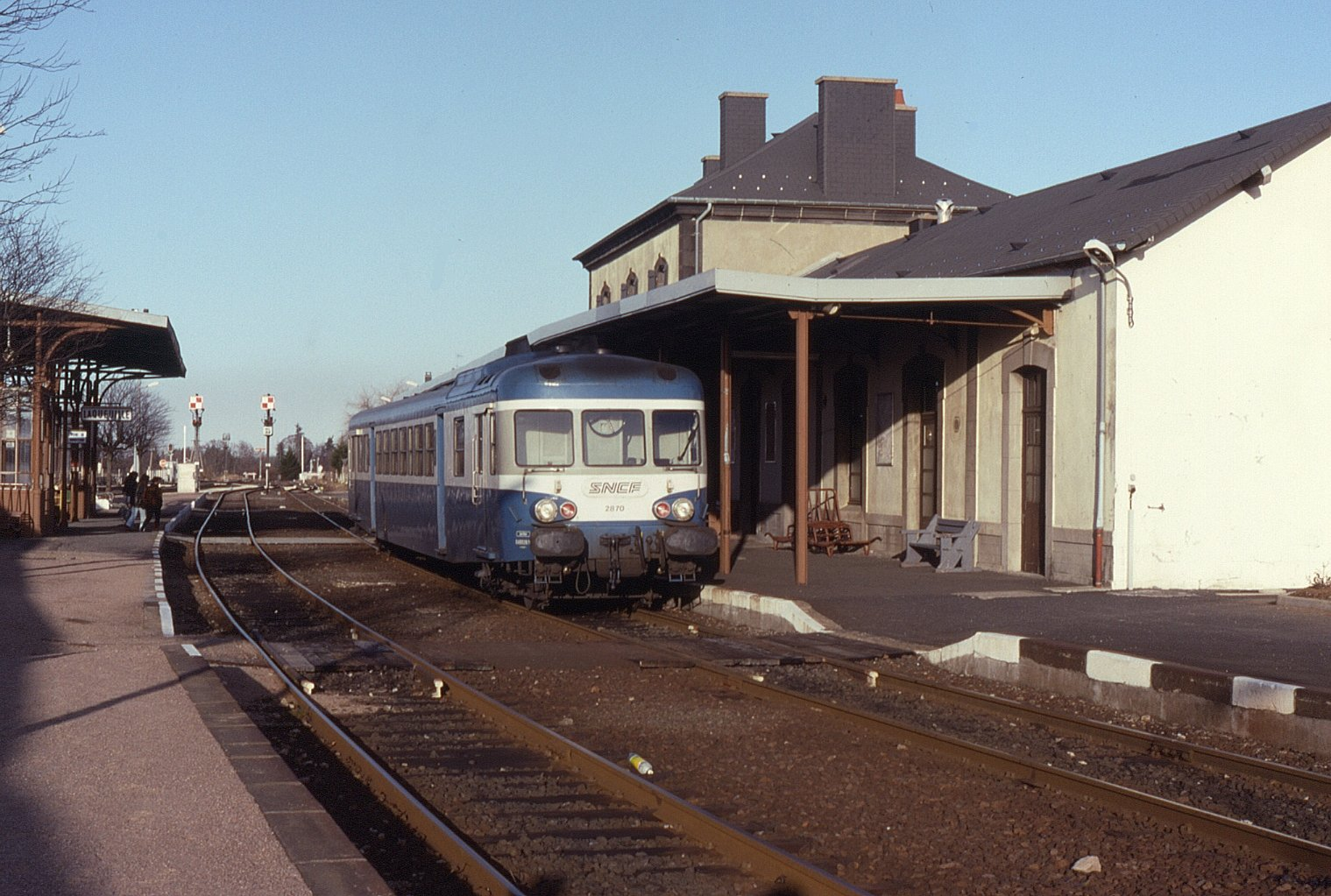 Rural lines in France at their best. Laqueuille located in the Auvergne region on the line from Brive-la-Gaillard to Clermont-Ferrand as seen on 14 December 1991. The railcar seen is one of the class X2800 series built between 1957 and 1962 found in this area of France. X2870 is seen waiting departure on the 15:33 to Le Mont-Dore.